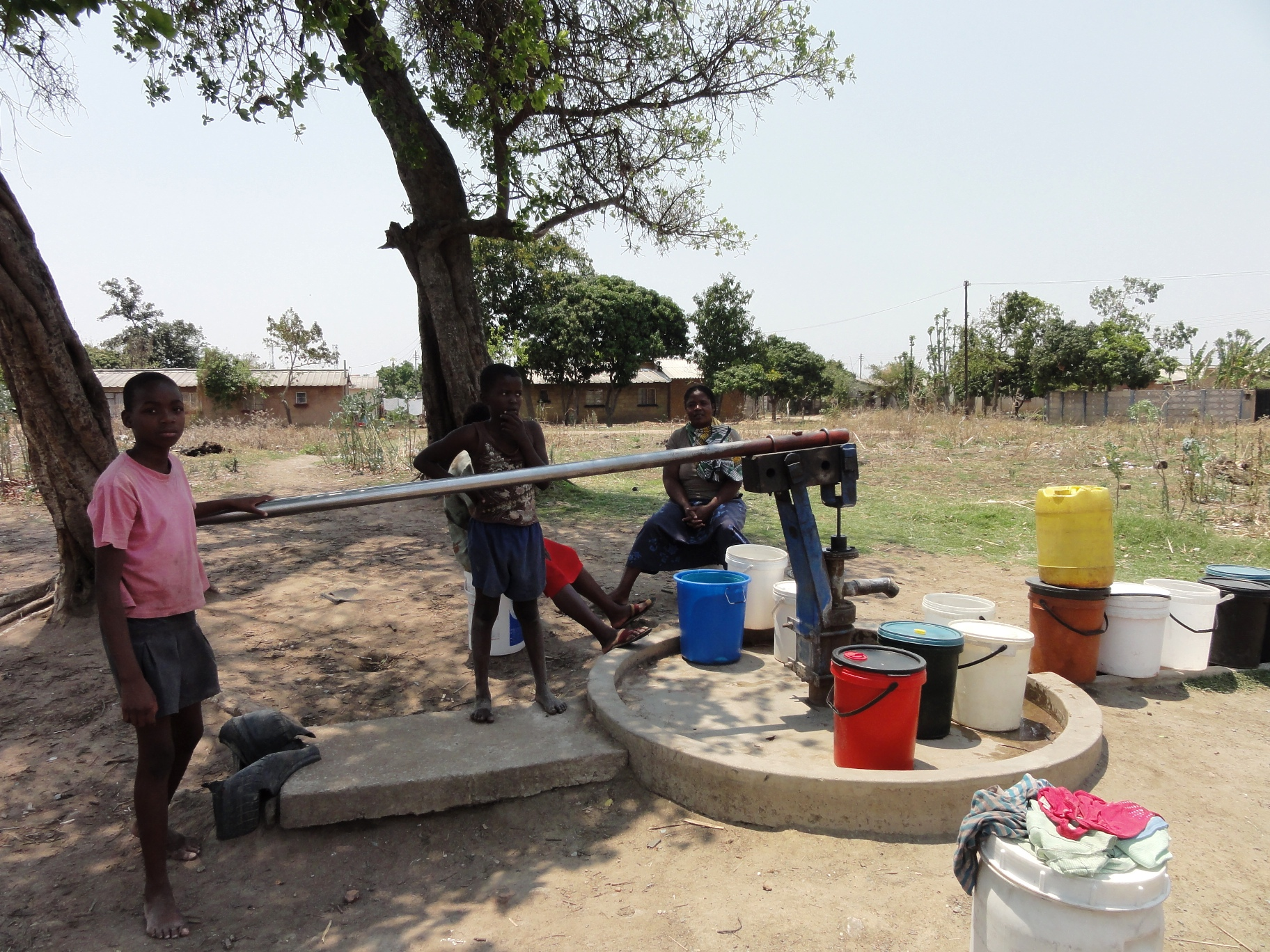 Photo taken by P. Feiereisen on 19 October 2011in Norton, Zimbabwe.